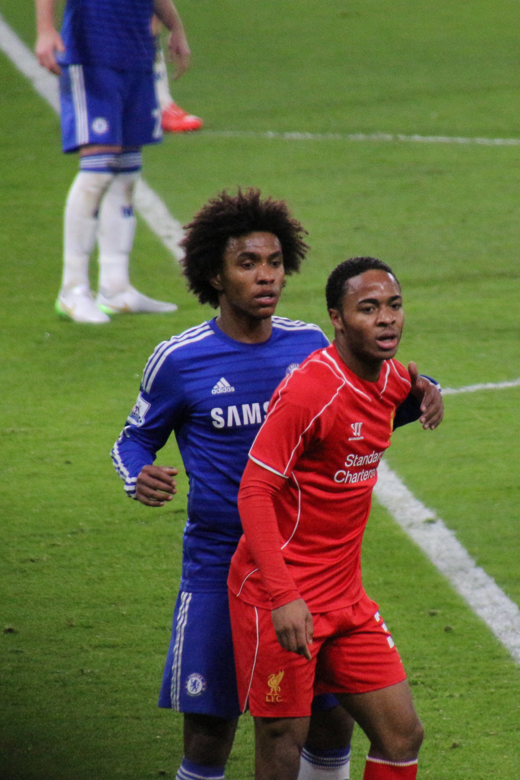 Chelsea 1 lLiverpool 0 (2-1 agg) Capital One Cup semi final 2nd leg On our way to Wembley!